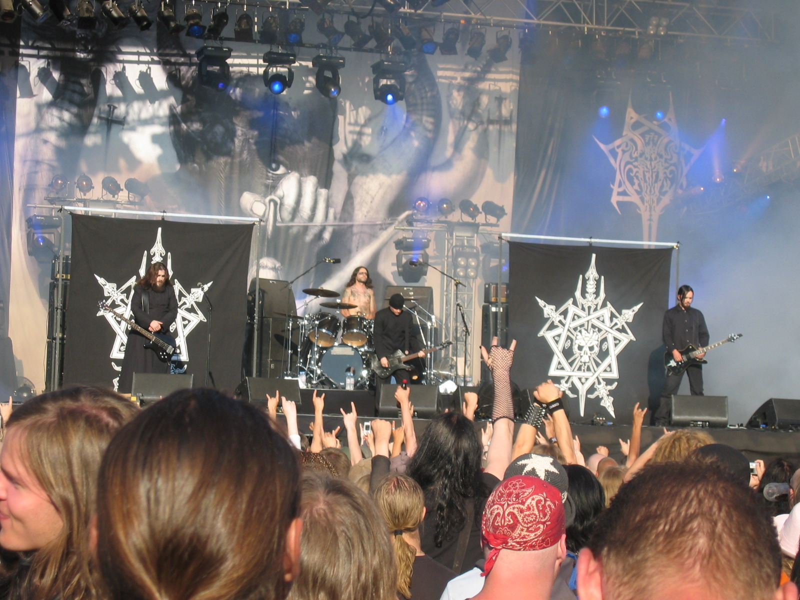 Celtic Frost performing at Tuska Open Air Metal Festival 2006